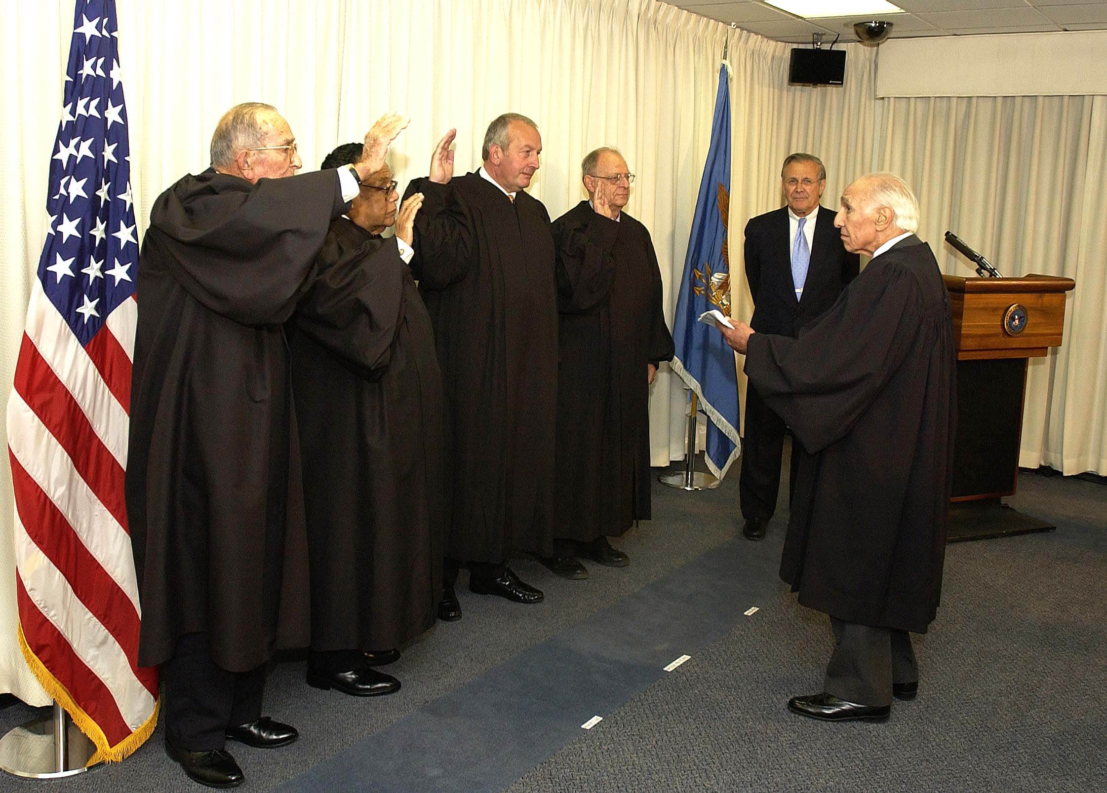 Defense Secretary Donald H. Rumsfeld (rear) observes as Judge Anthony Alaimo, District Court Judge for the 11th Circuit in Georgia, administers the oath office to the first Military Commissions Review Panel on Sept. 21 at the Pentagon. Panel members are (left to right) Judge Griffin Bell, former circuit judge, U.S. Court of Appeals, 5th Circuit; William Coleman, former transportation secretary under President Ford; Chief Justice Frank Williams, Rhode Island Supreme Court; and Judge Edward G. Beister, Court of Common Pleas of Bucks County, Pa. Photo by Master Sgt. James M. Bowman, USAF